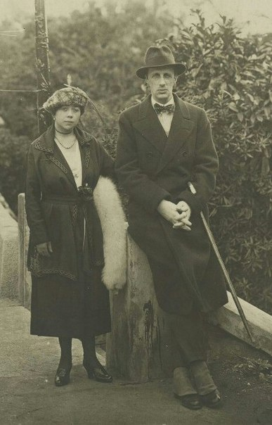 Gavriil Konstantinovich Romanov with wife Antonina Nesterovskaya